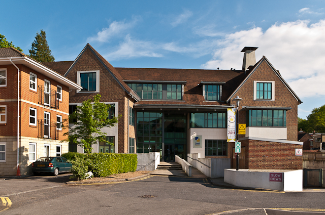 Vale House, Reigate